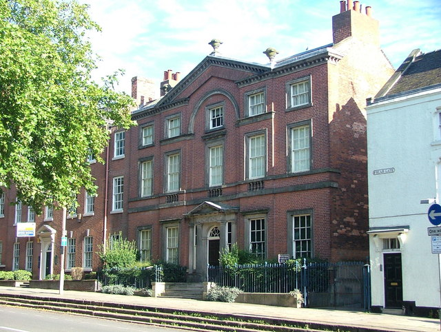 Pickford's House Number 40-41 Friargate, "Pickford's House", was designed and built by the talented architect and mason Joseph Pickford (1734 - 1782). The house was intended to showcase his work, with the intention of securing new contacts. It was also his residence. At the rear of the property Pickford had his builder's yard, access being by a driveway to the right of the property. It is now a museum and well worth a visit.